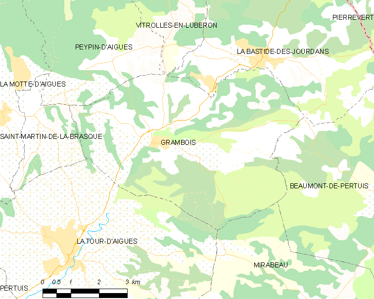 Map of French municipality Grambois